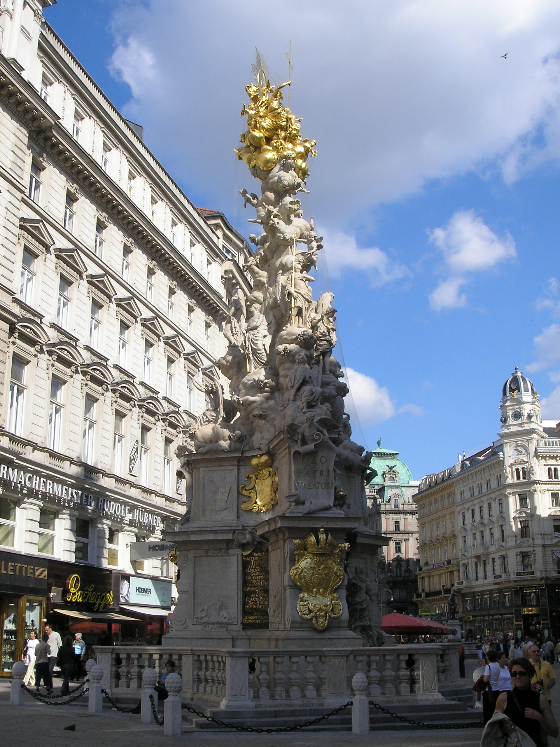 The Graben street in Vienna.